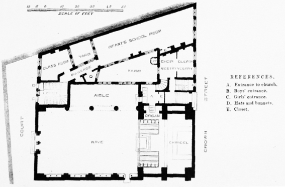 St. Mary's Church, clergy house and school. Crown Street (modern Charing Cross), London 1869–74.